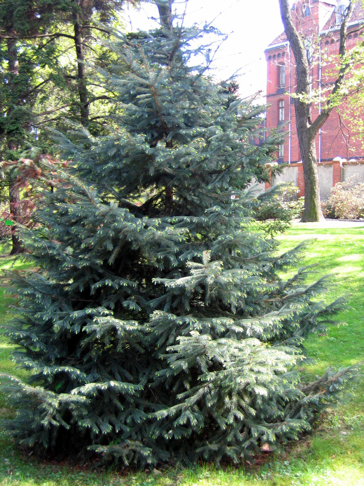 Picea engelmannii, Botanical Garden, Wrocław, Poland.